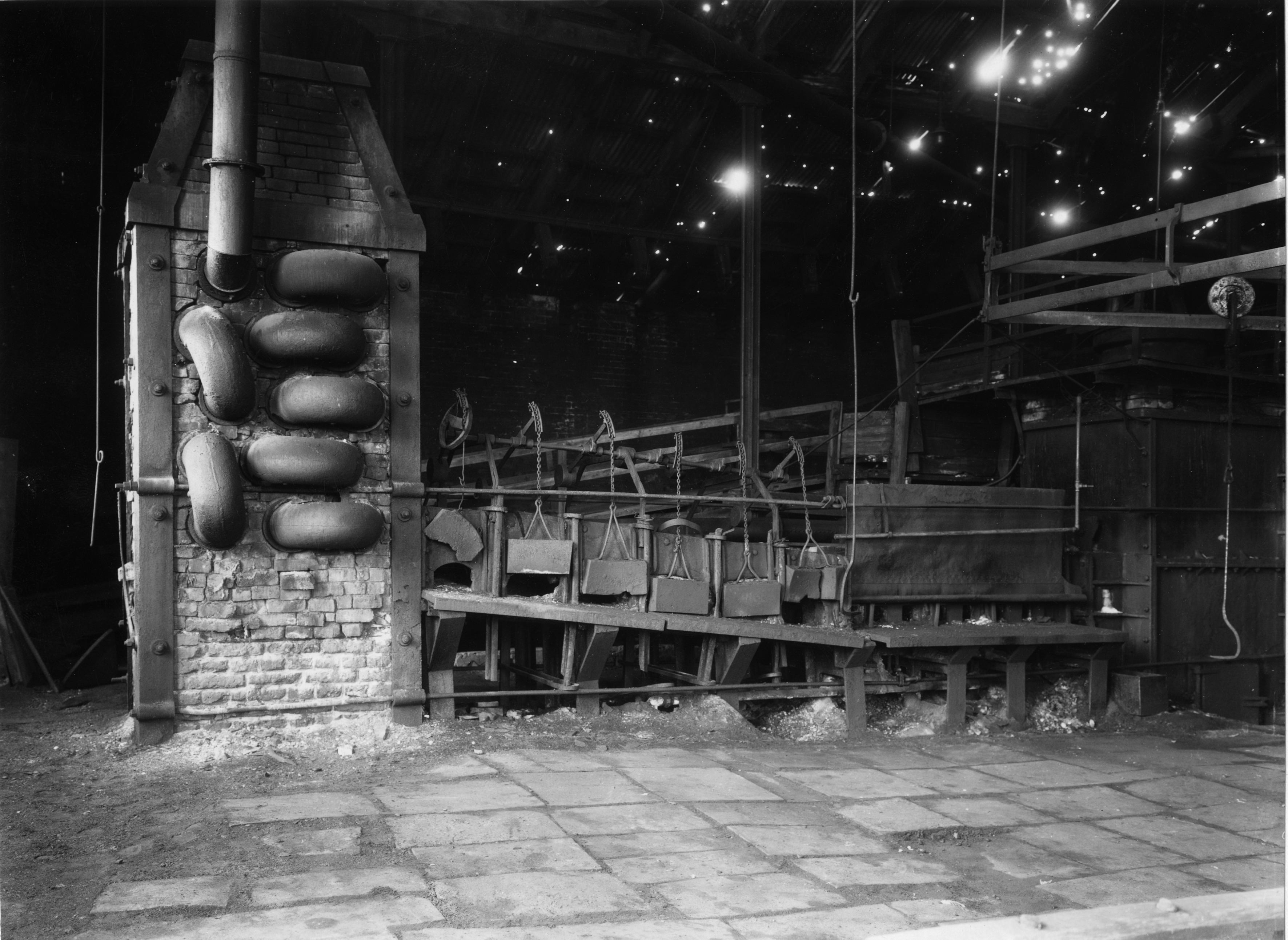 Roasting kiln for forge welding at Lövsta (old spelling: Leufsta) bruk, Sweden. Picture from 1930.